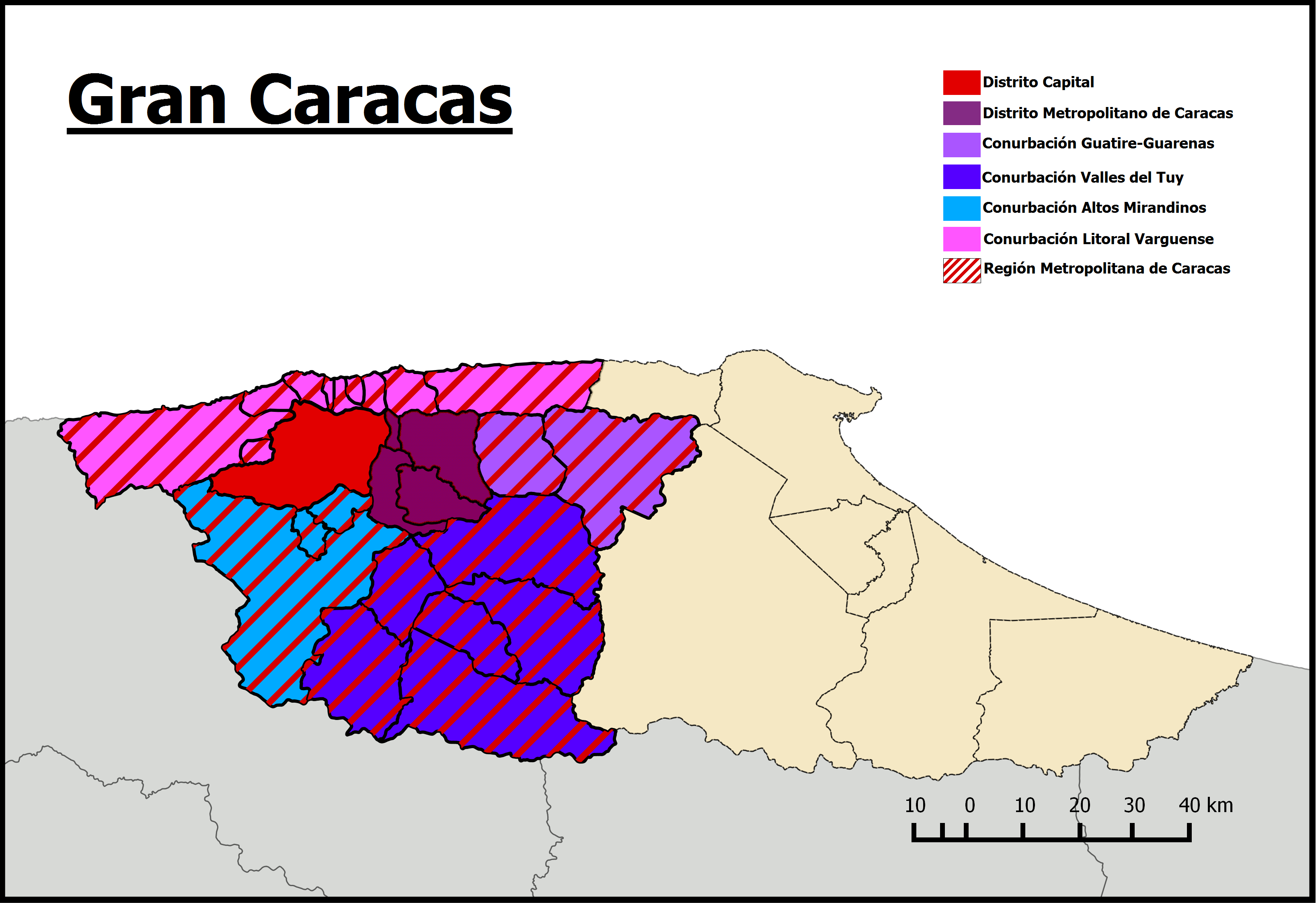 Municipalities and parishes that conforms the Metropolitan Region of Caracas (RMC), also known as Greater Caracas.